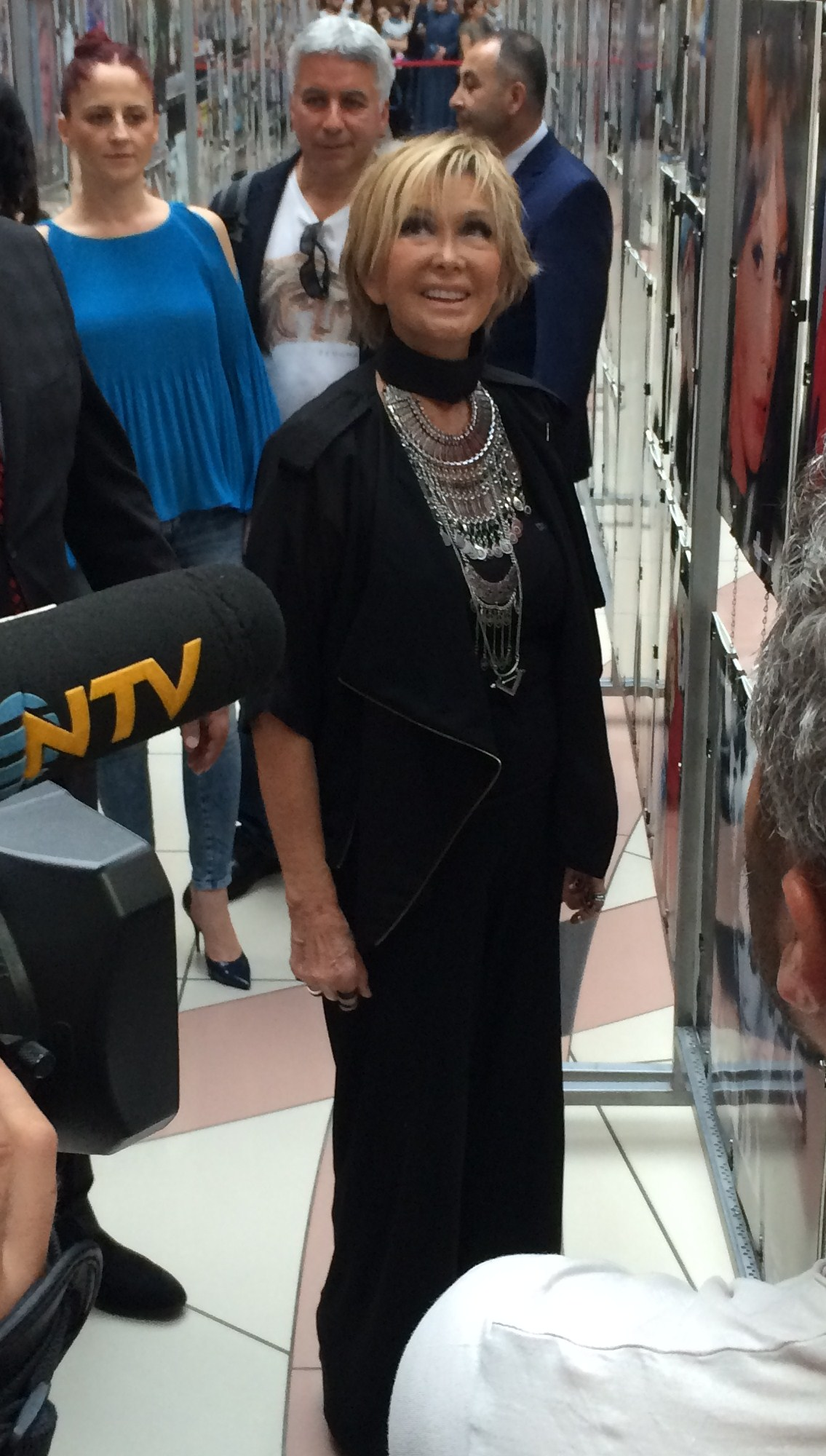 Filiz Akın